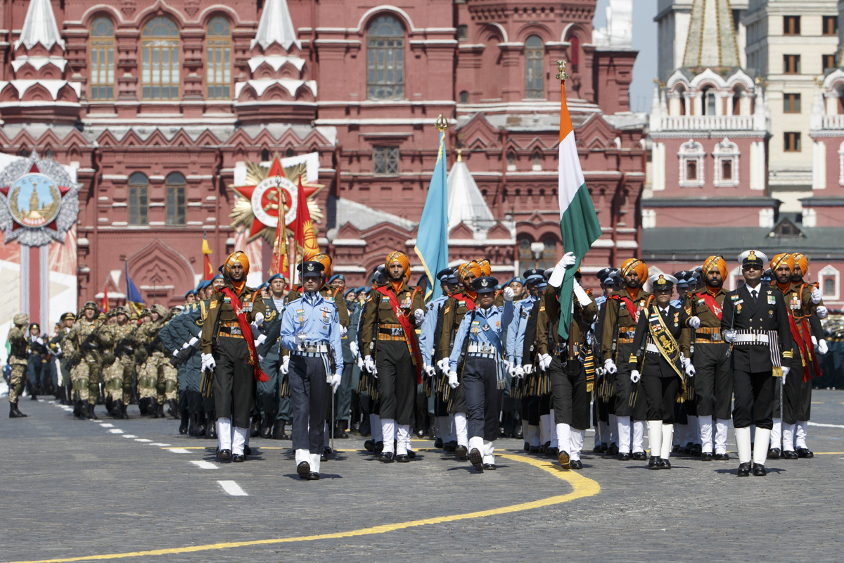 Парад Победы в Москве, посвященный 75-й годовщине Победы в Великой Отечественной войне